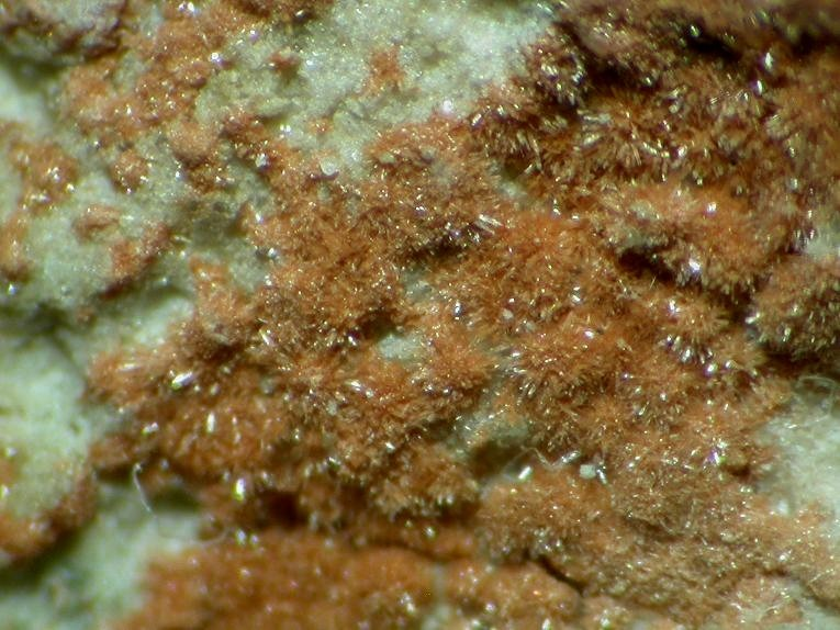 Ruizite Locality: Christmas Mine (Red Bird shafts; Inspiration Mine; Hackberry shafts), Christmas, Christmas area, Banner District, Dripping Spring Mts, Gila County, Arizona, USA (Locality at ) Field of view 4 mm. Specimen and photo Leon Hupperichs.